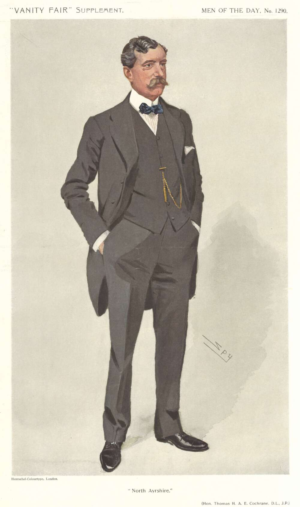 Men of the Day No.1290: Caricature of The Hon THAE Cochrane DL JP. Caption reads: "North Ayrshire"